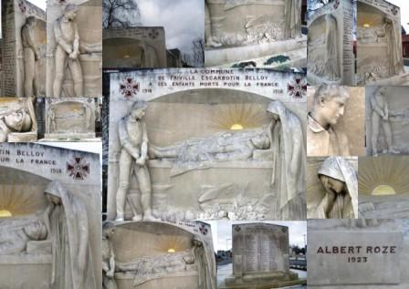 A montage of photographs of the monument aux morts at Friville-Escarbotin in the Somme region of France. This monument aux morts features sculptural work by Albert-Dominique Roze. The monument aux morts dates from 1924 and covers the three communities of Friville, Escarbotin and Belloy. It was inaugurated on the 3rd August 1924 and stands in a square on the outskirts of the village. In the composition we see a widow morning a dead soldier balanced against a young man standing over agricultural and industrial tools and representing the young generation who will be charged with rebuilding France; the rising sun gives a sense of renewal. It was erected on land in front of the then Friville railway station.